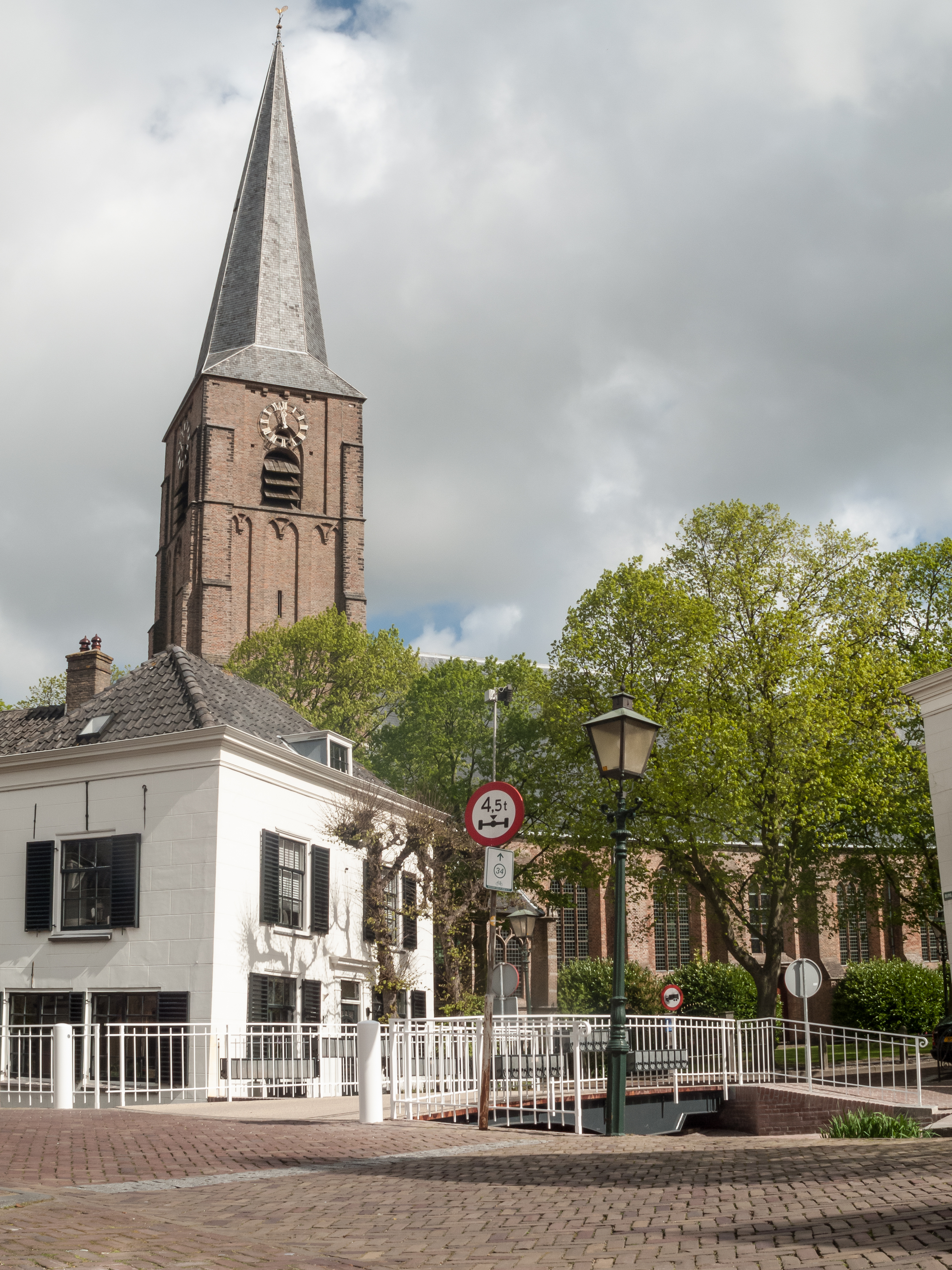 Maasland, churchtower (de de Oude Kerk)